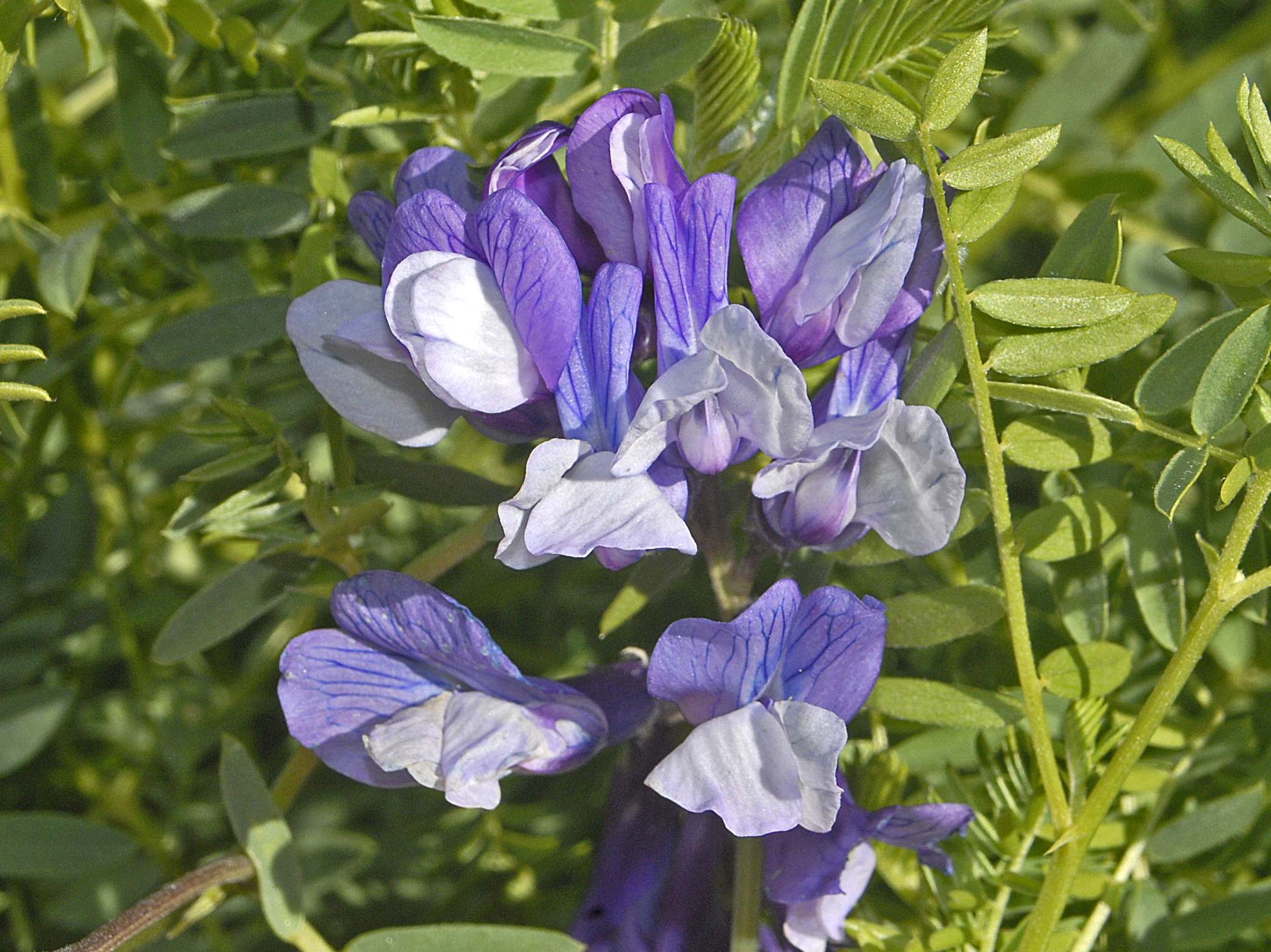 Flowers of Vicia dumetorum at the Giardino Botanico Alpino Chanousia